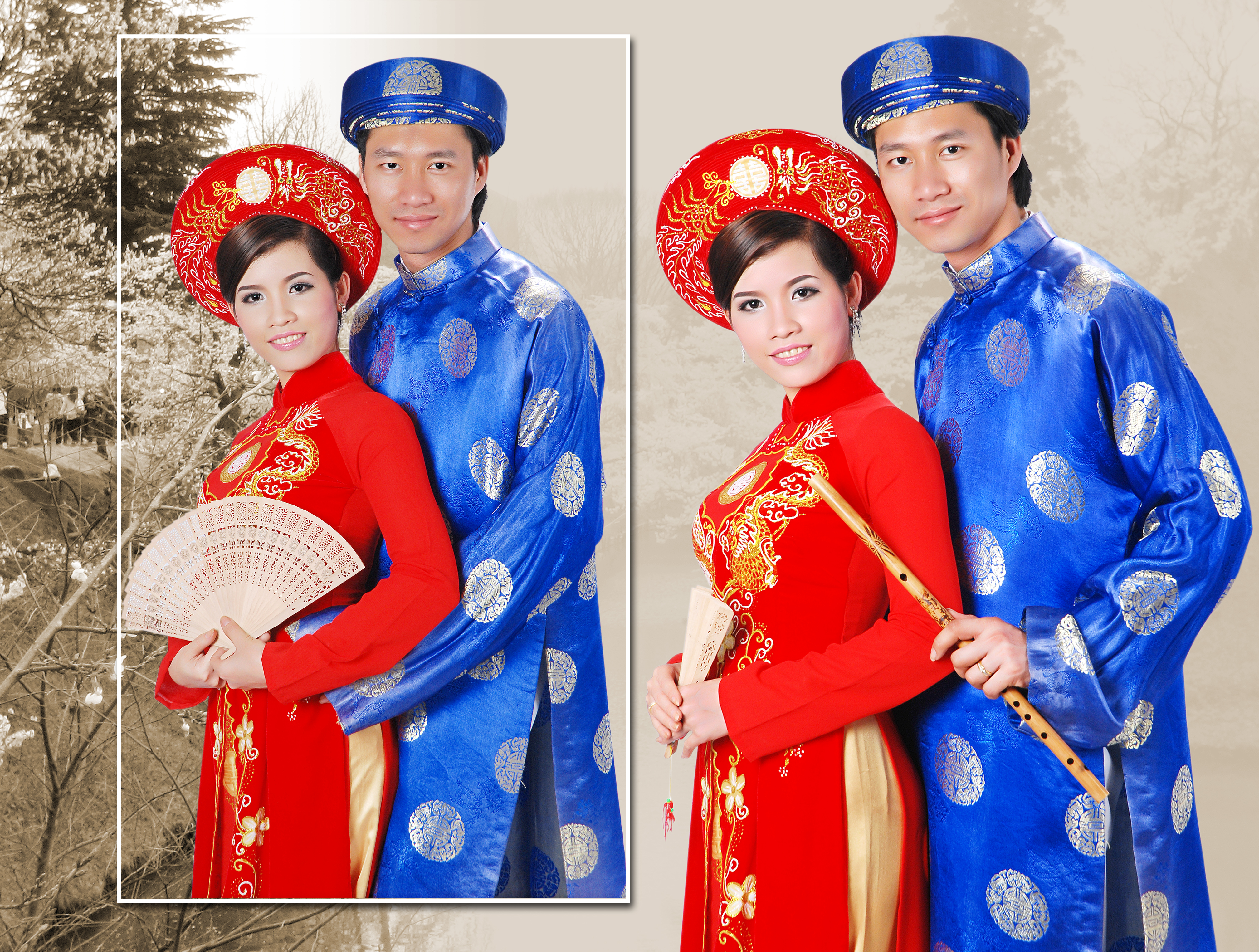 my wedding photo